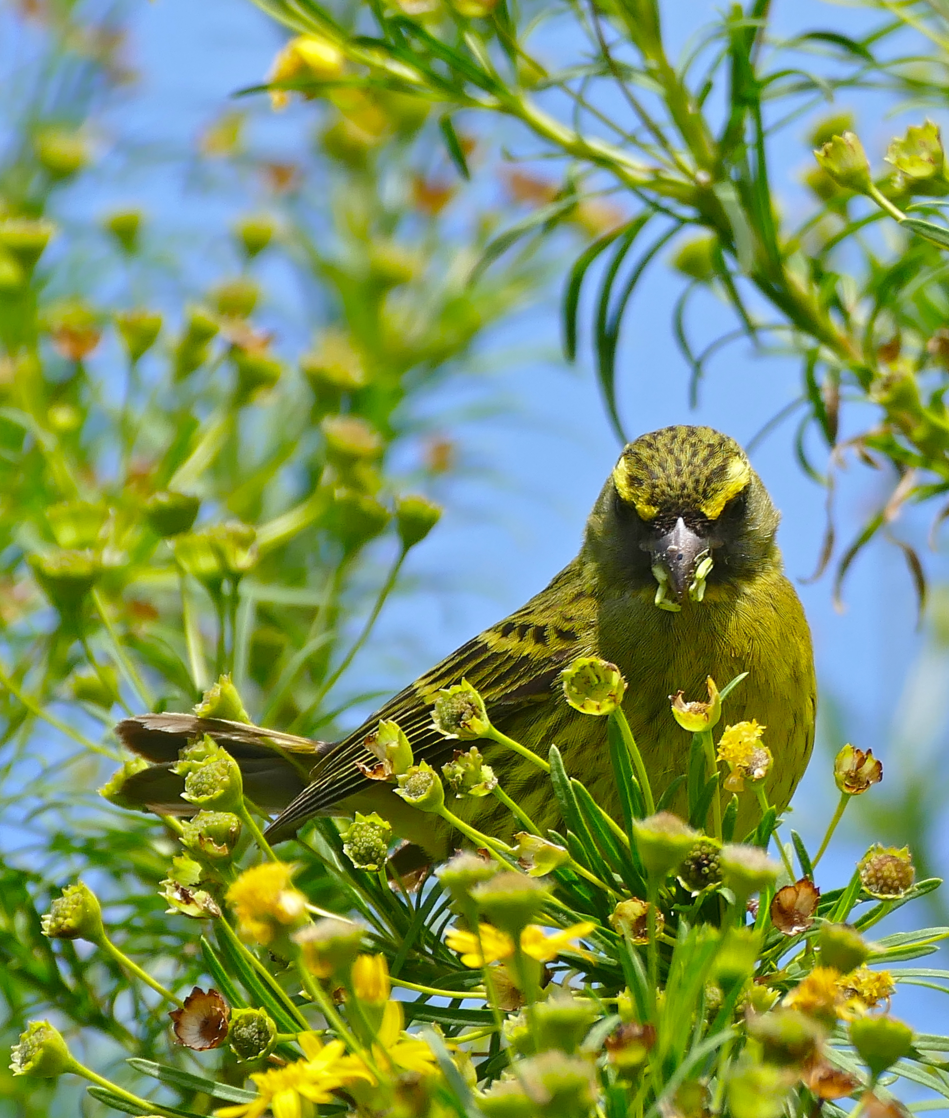 Kirstenbosch National Botanical Garden, Cape Town, Western Cape, SOUTH AFRICA